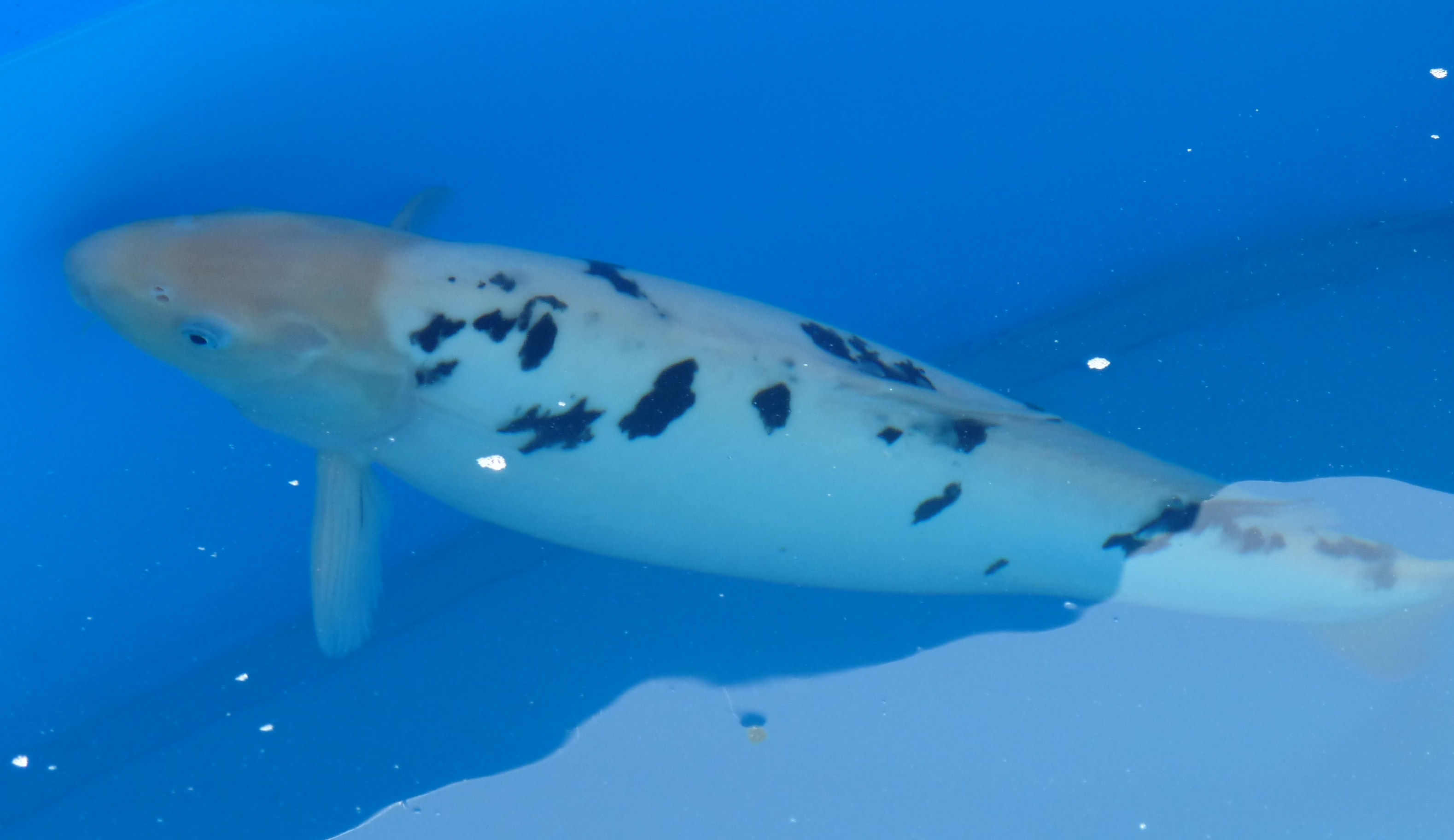 Doitsu Shiro Bekko (Koi)